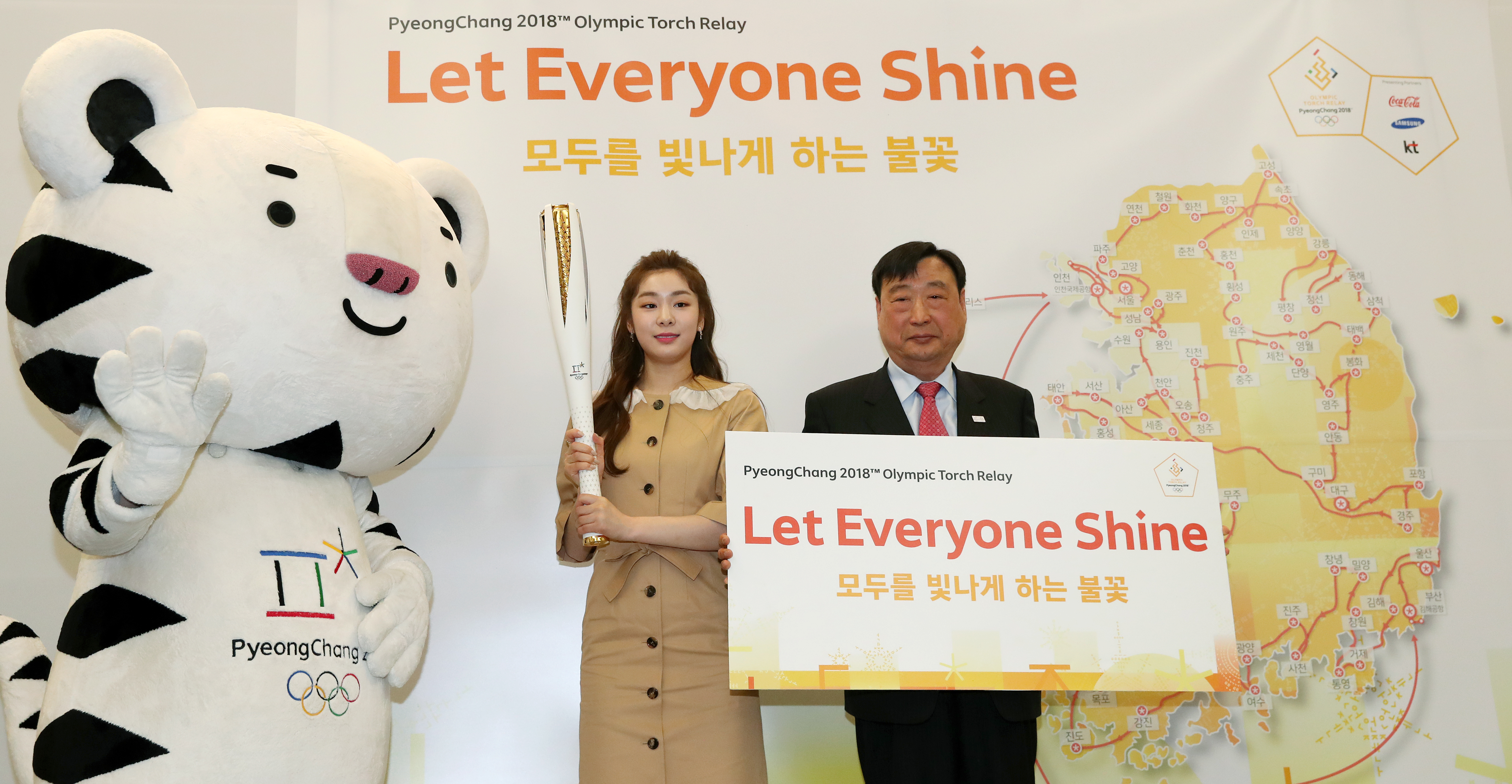 PyeongChang 2018 Torch